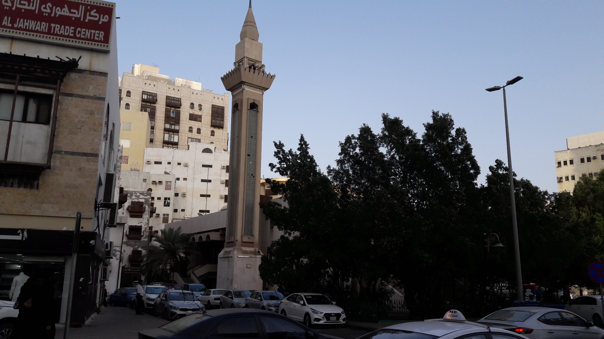 Masjid Al-Basha, Old Jeddah